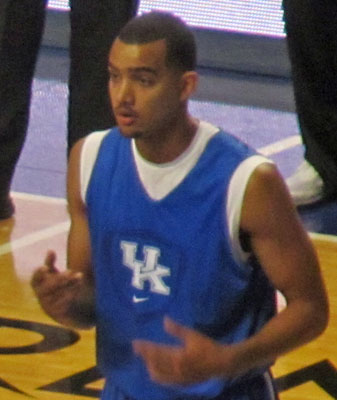 Kentucky Wildcats men's basketball player Trey Lyles at the team's 2014 Blue-White scrimmage at Rupp Arena in Lexington, Kentucky